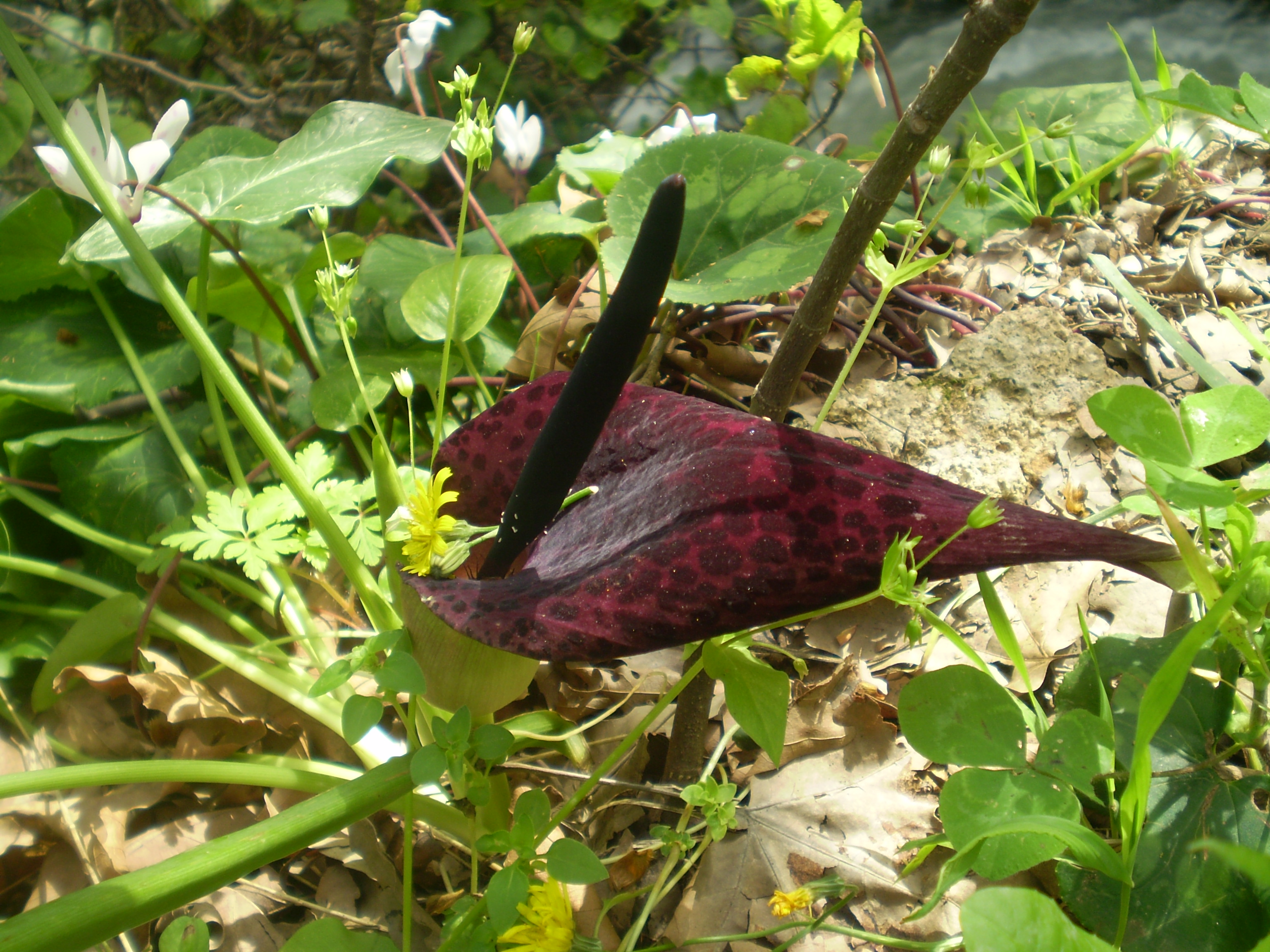 Arum dioscoridis